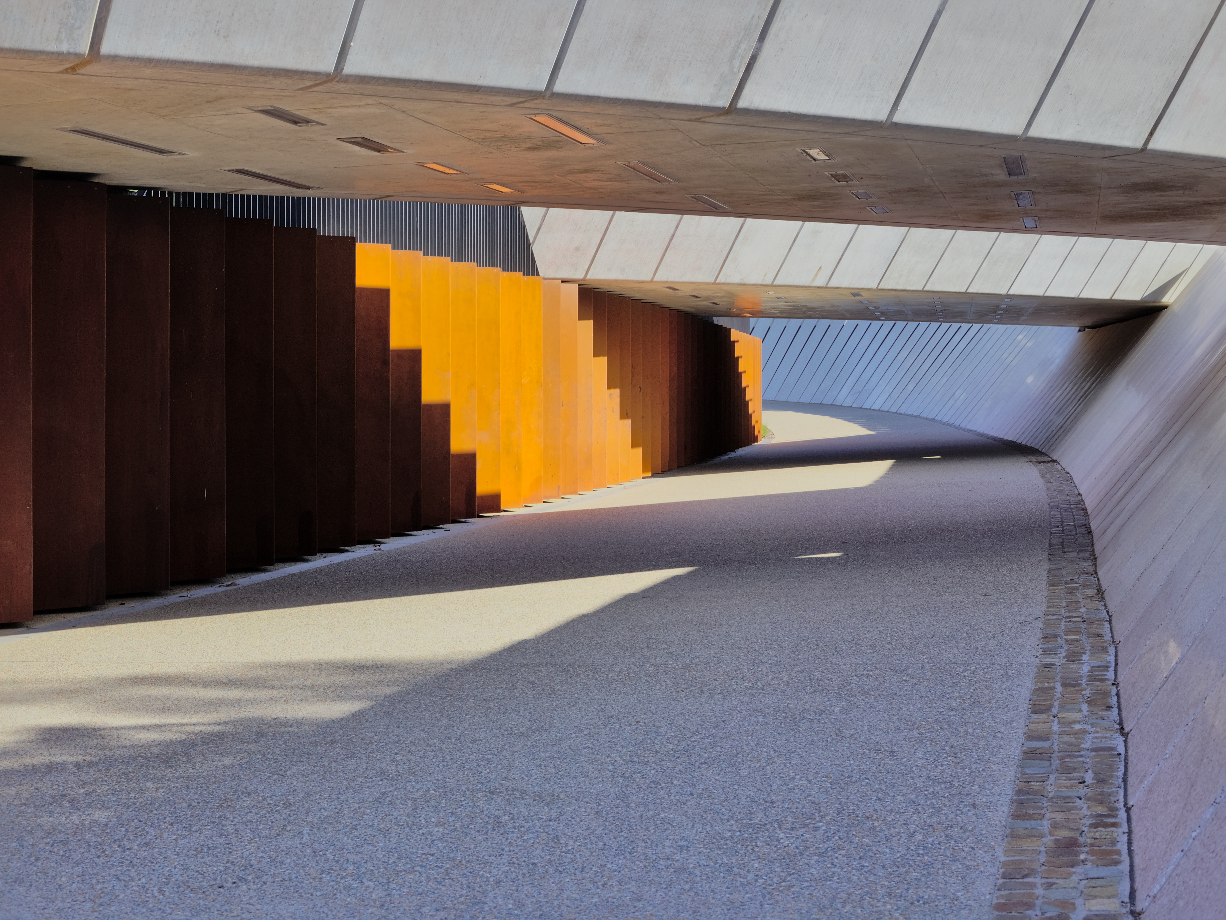 A road overpassing a pedestrian walkway at Bowen Place, Parkes, Canberra ACT Australia.